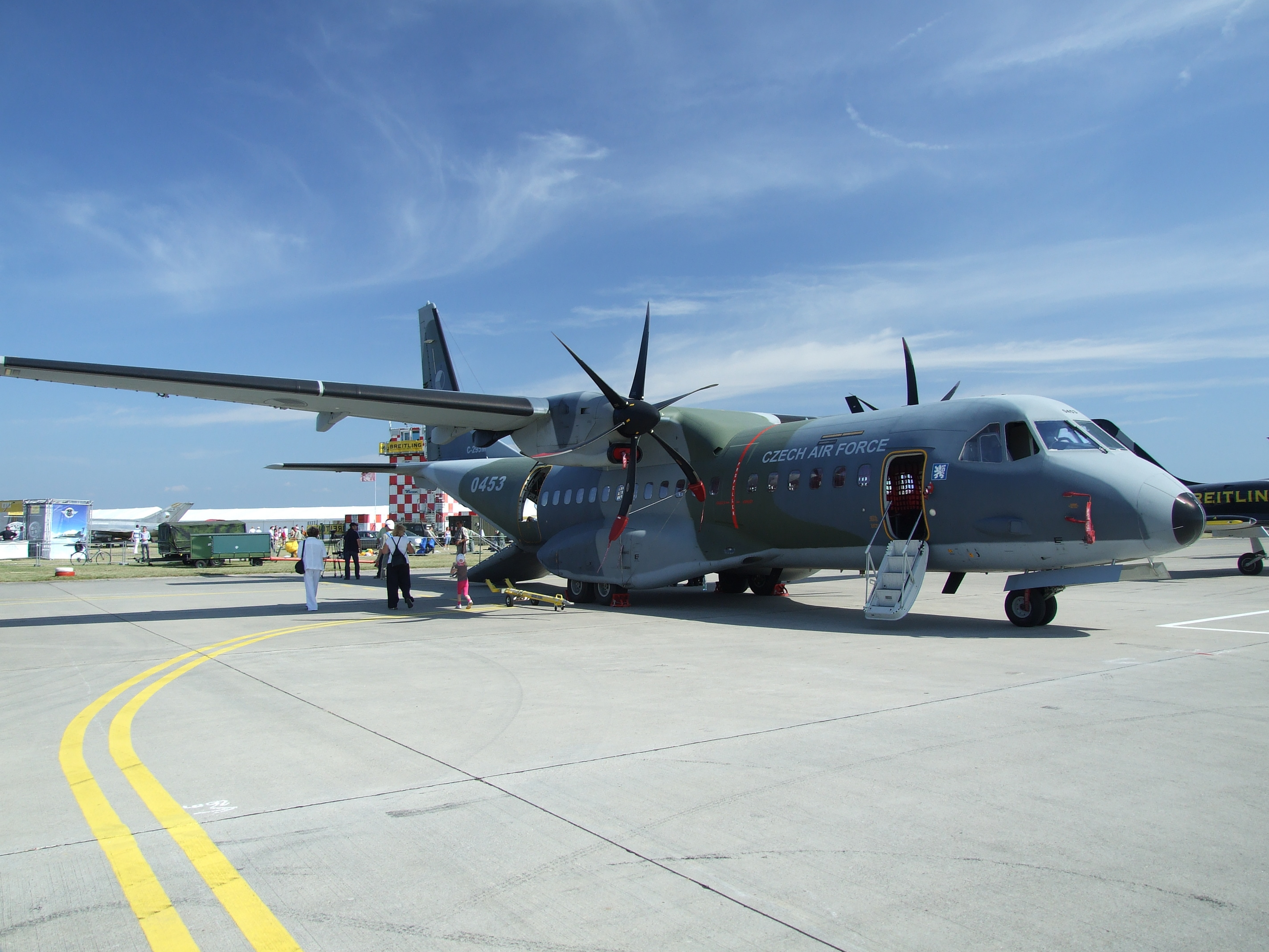 CASA C-295 of Czech Air Force at CIAF 2011 in Hradec Králové, CZ.